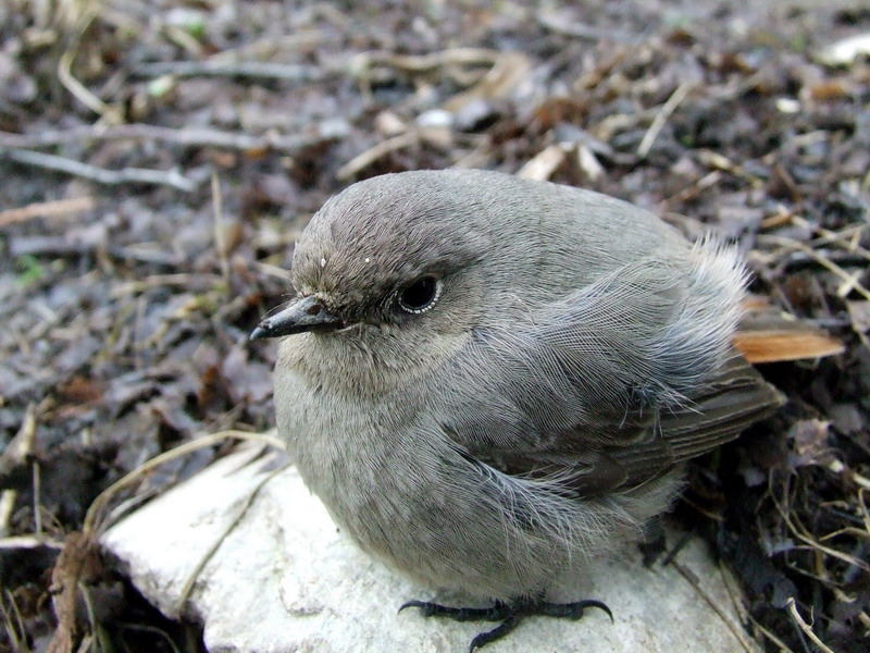 Phoenicurus ochruros. Dasiūnai, Kaunas district, Lithuania